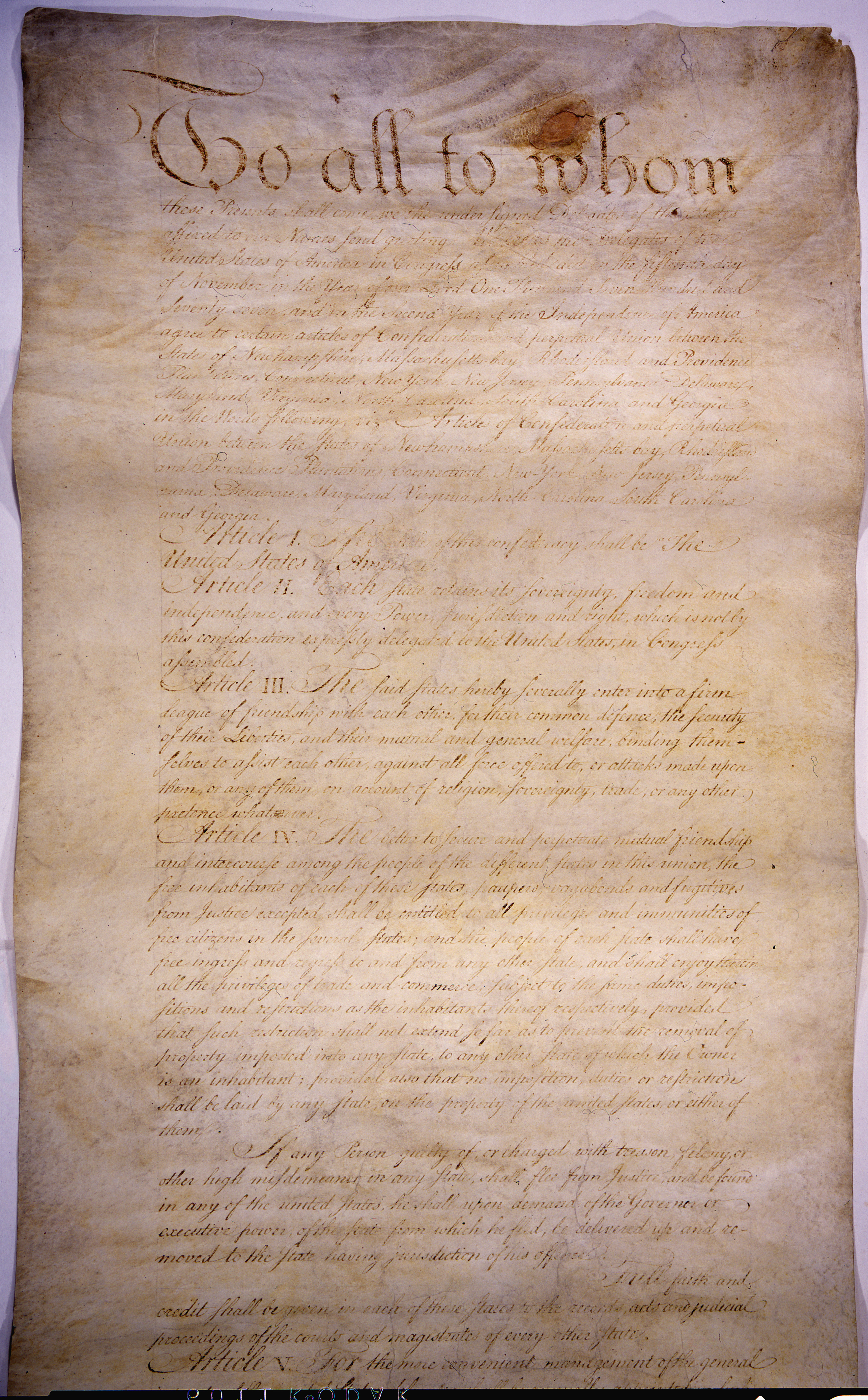 The Articles of Confederation, ratified in 1781. This was the format for the United States government until the Constitution.